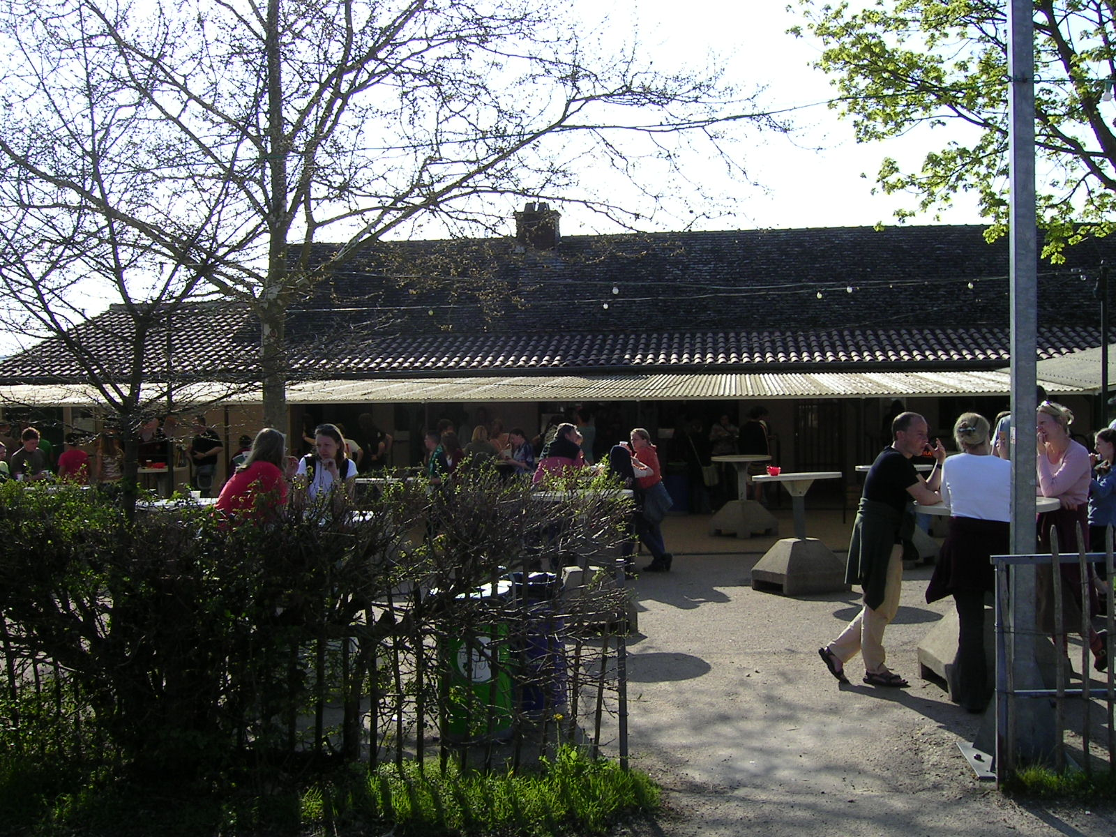 The Oyak in Taizé